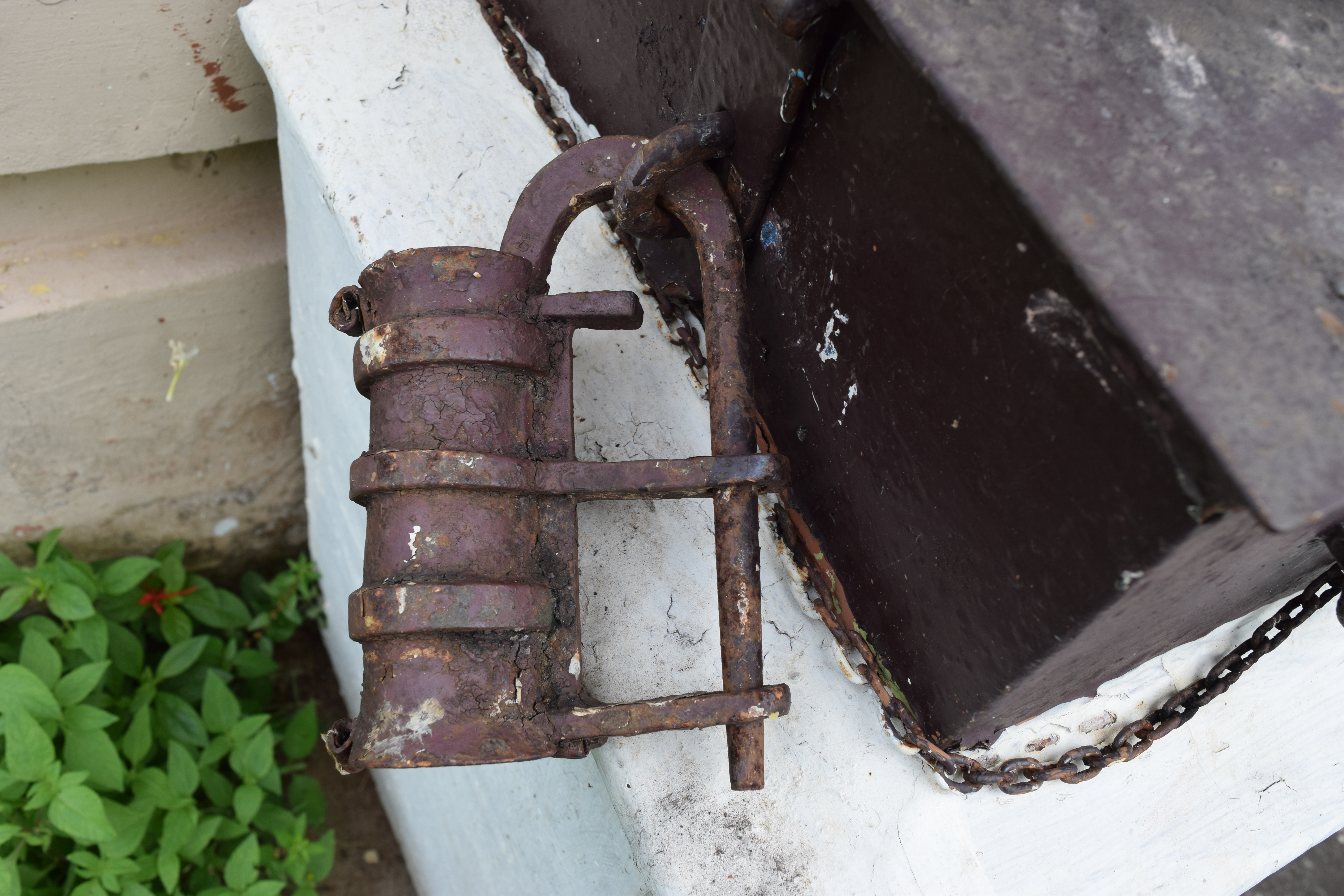 Ancient Lock from Thirunayathode Siva Narayana Temple located at Nayathod, 3kms from Cochin International Airport in Ernakulam District, Kerala, India